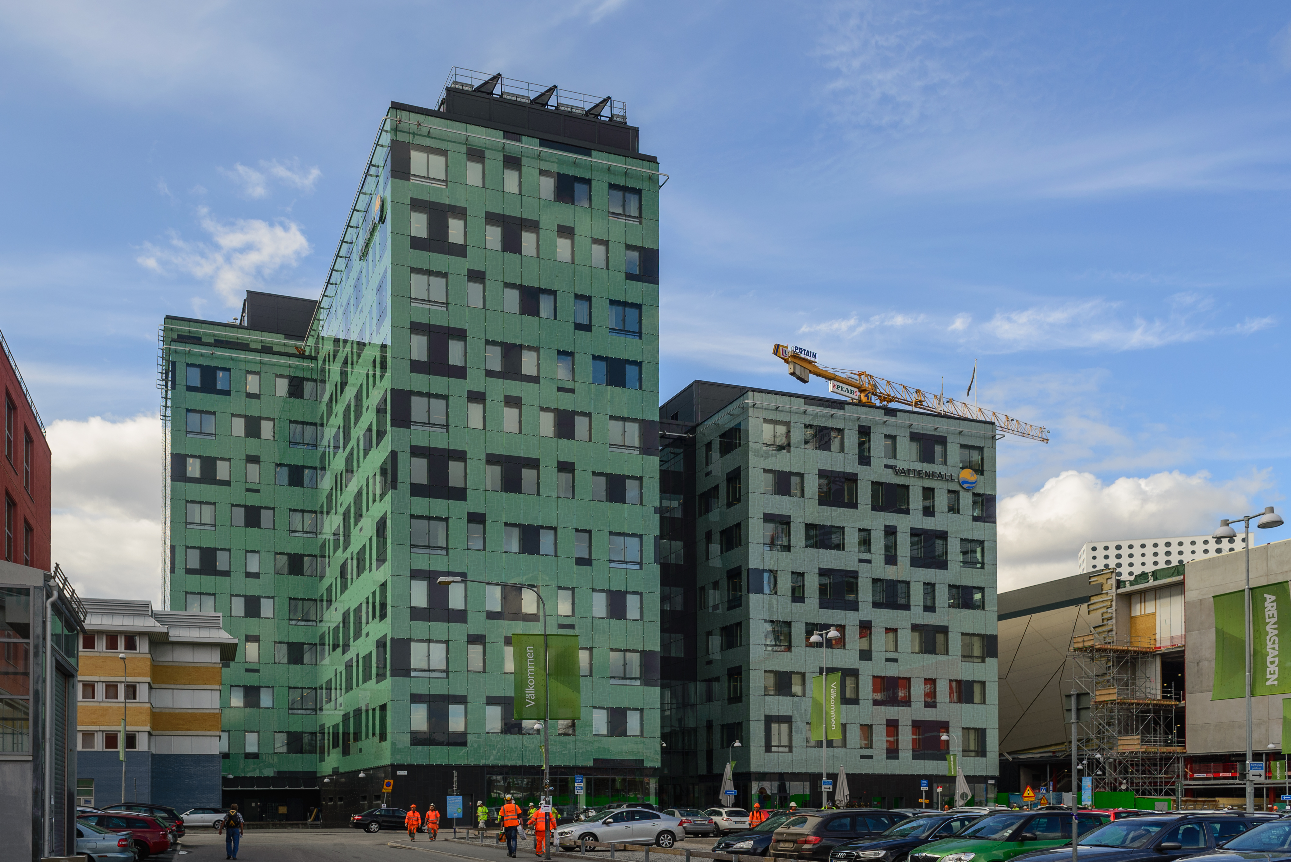 Vattenfall new corporate headquarter in Arenastaden. Solna (Stockholm), Sweden. Built 2009-12. Architects: Archus Arkitekter (building) and Tengbom arkitekter (interior).